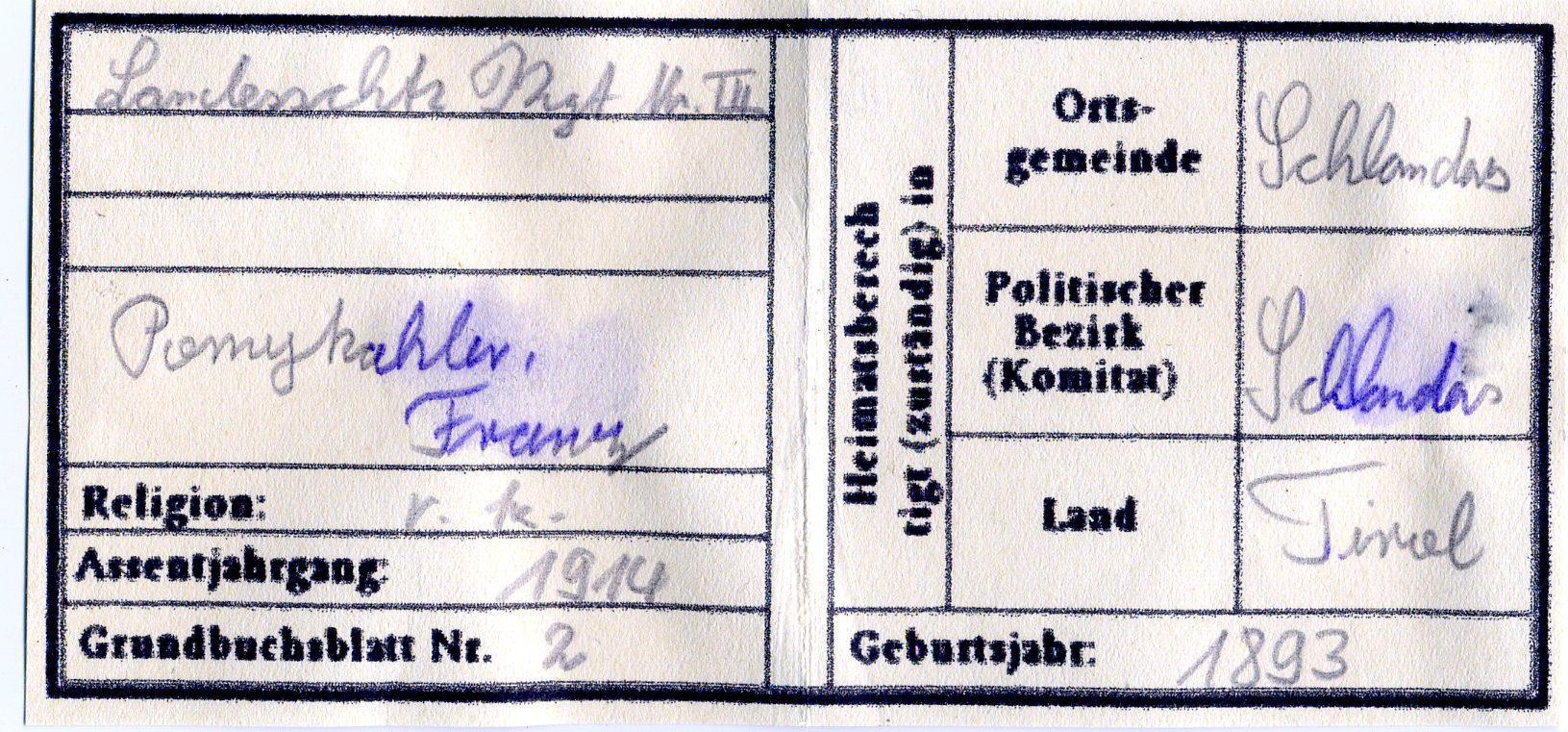 Austria-Hungarian Army personal idendity document for identification in case of death on the battlefield